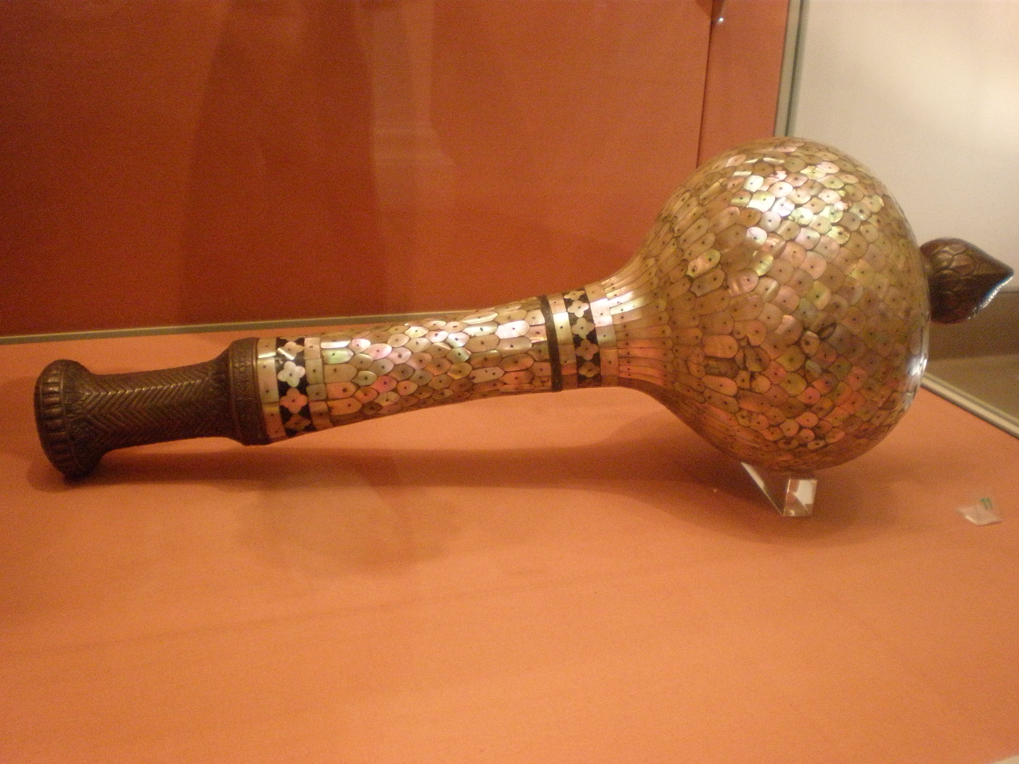 Ceremonial Mace (chob) Wood overlaid with mother-of-pearl; copper handle and finial Mughal c.1600 Museum no. IM.228-1927 Bequeathed by the Marquess Curzon of Kedleston This imposing mace would have been made for ceremonial use rather than as a weapon. Similar maces are shown in Mughal paintings, carried by court attendants as badges of office and also used to control people's access to the emperor. This one, however, is so large and heavy that it would probably have been carried on the shoulder of an attendant and not used. Mother-of-pearl decoration was the speciality of Gujarati craftsmen, who used it both in inlay and as plaques over a wooden base. Wikipedia Loves Art at the Victoria and Albert Museum This photo of item # [1] at the Victoria and Albert Museum was contributed under the team name "va_va_val" as part of the Wikipedia Loves Art project in February 2009. Victoria and Albert Museum The original photograph on Flickr was taken by Val_McG—please add a comment to the original Flickr page whenever a use has been made on Wikipedia or another project. Project galleries on Flickr: this institution, this team